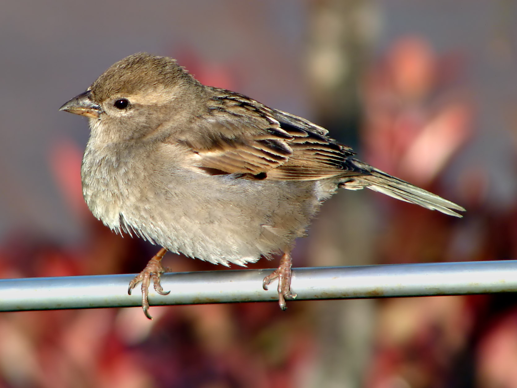 A female House Sparrow, in Istanbul, Turkey